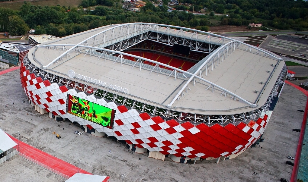 Stadium Otkrytiye Arena in Moscow